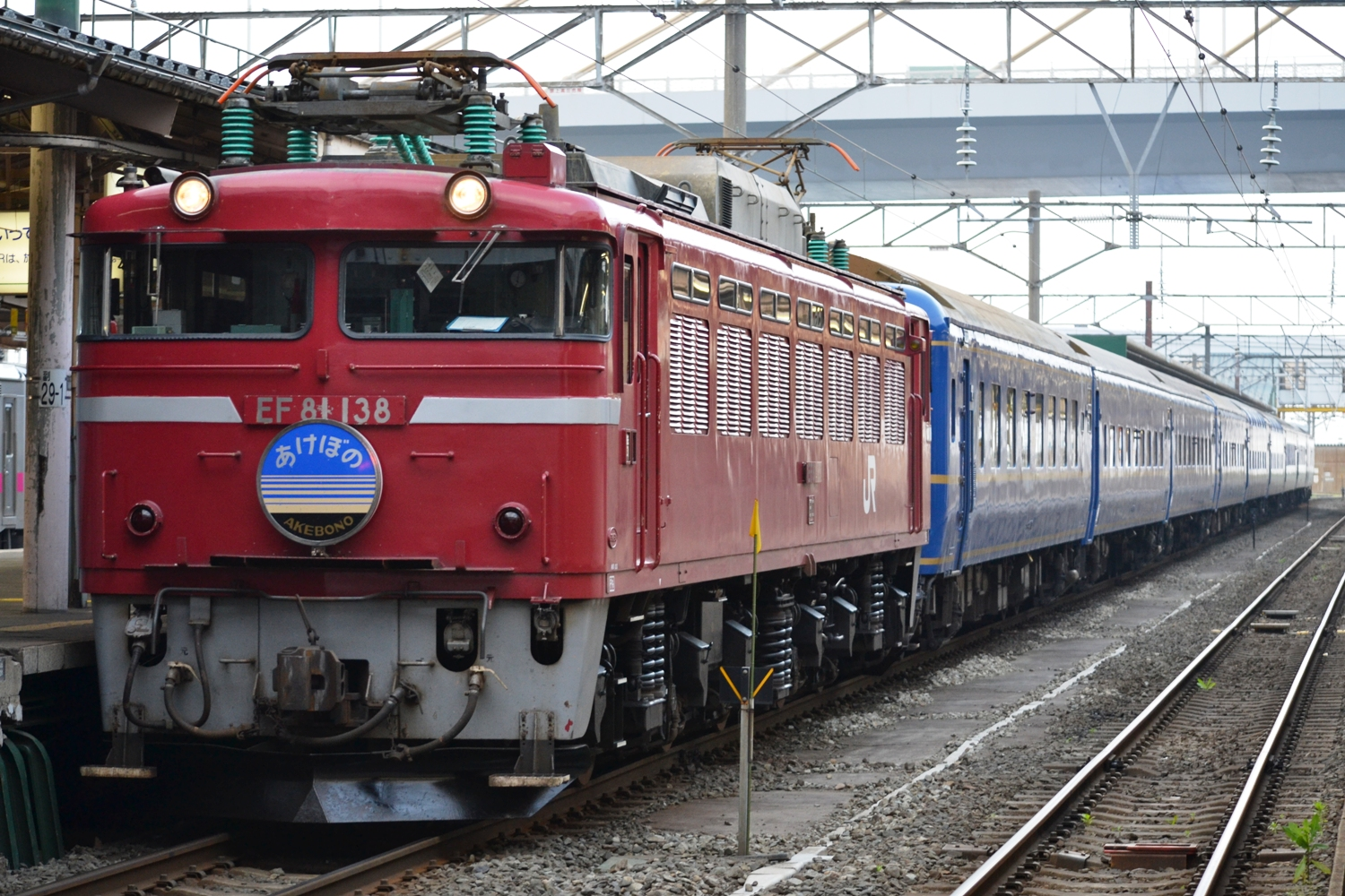 JR East Class EF81 electric locomotive EF81 138 at Aomori Station awaiting departure on an Akebono overnight sleeping service to Ueno